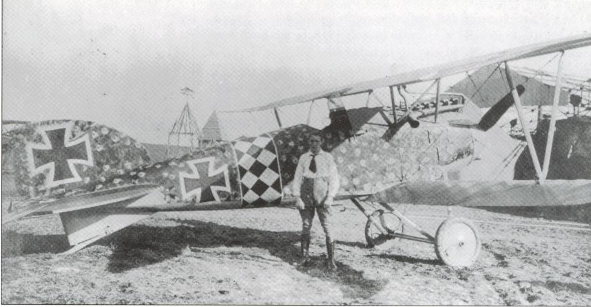 Fritz Jacobsen's Albatros D.V (OAW) D2090/16 Jasta 31 summer 1917